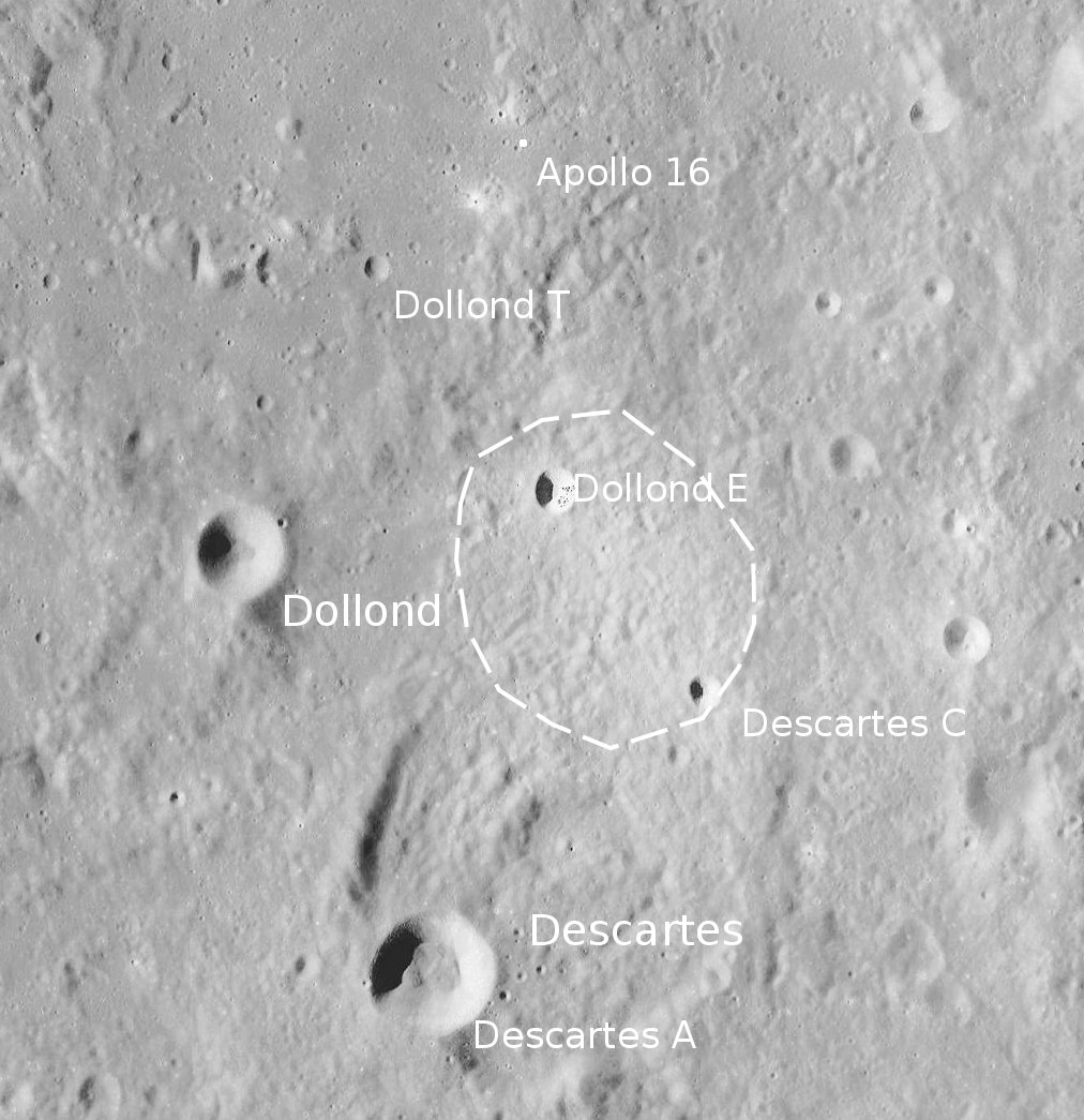 Crater Descartes with Descartes swirl (dashed border) and Apollo 16 landing site (detail of LRO - WAC global moon mosaic; Mercator projection)